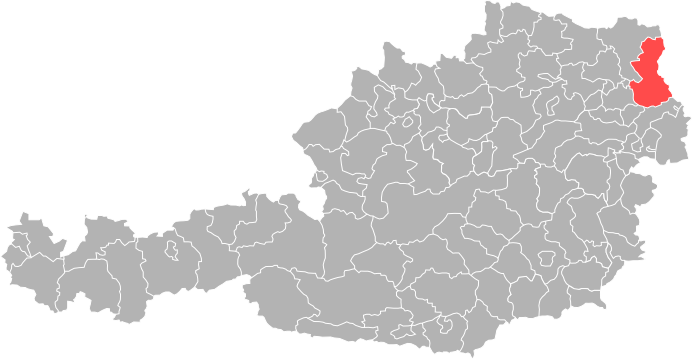 Locator map of Gänserndorf District in Austria.